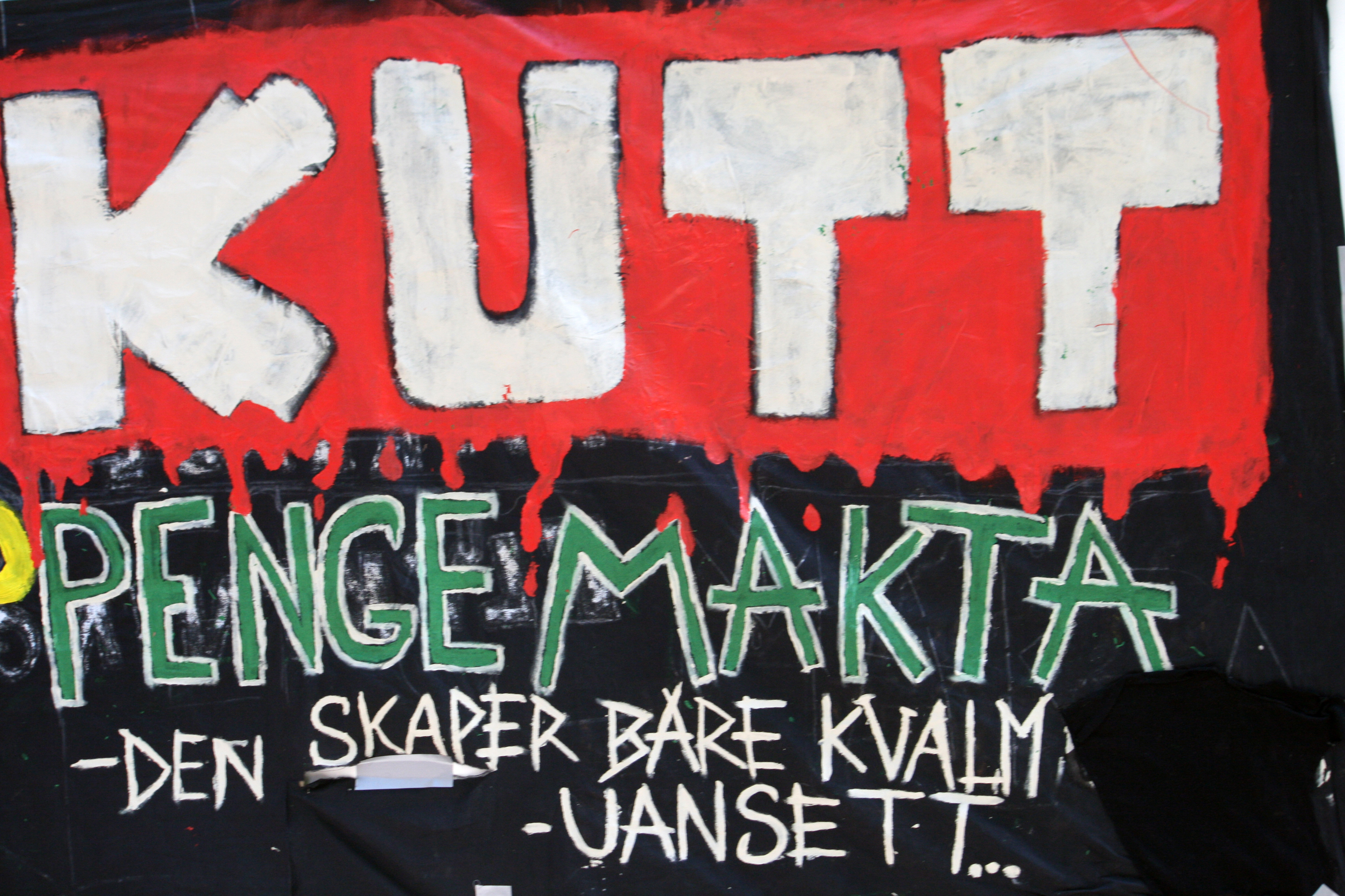 Labor Day banner from the section of the Blitz house in Oslo, Norway 2014 (Abolish money power – it's just sickening)